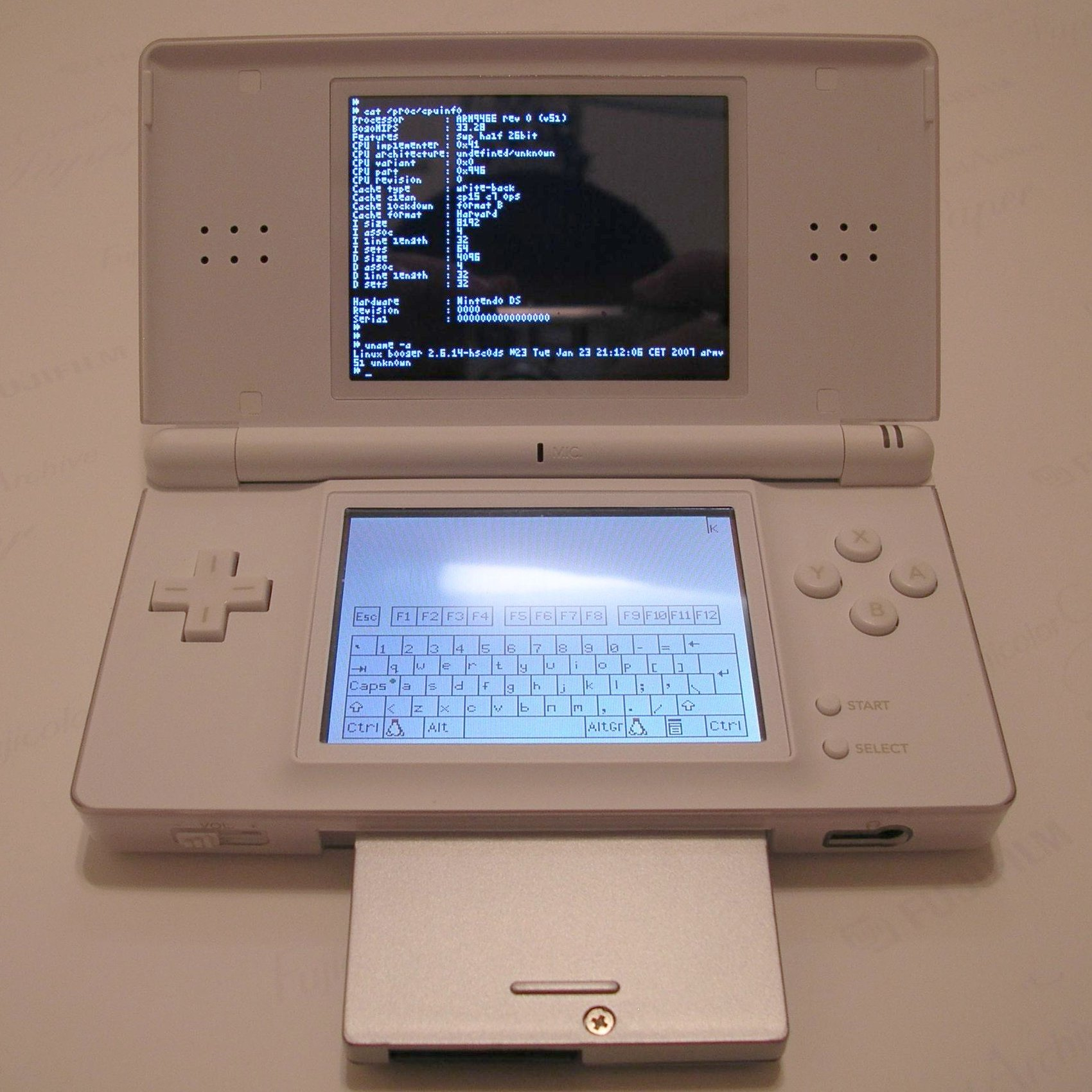 Photographer: myself, Gh5046 Original URL: Description: DSLinux running on a DS Lite using the M3 DS Simply and M3 DS Adapter